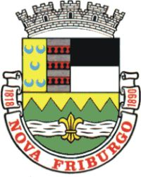 Coat of arms of Nova Friburgo, Brazil.